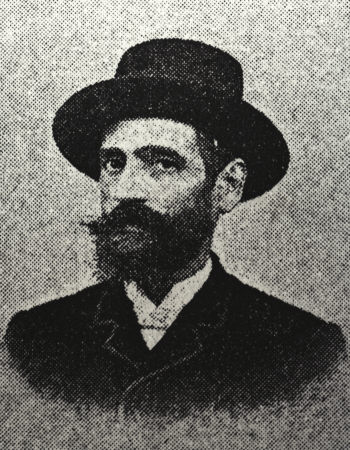 Themos Anninos (1845-1916): Greek cartoonist